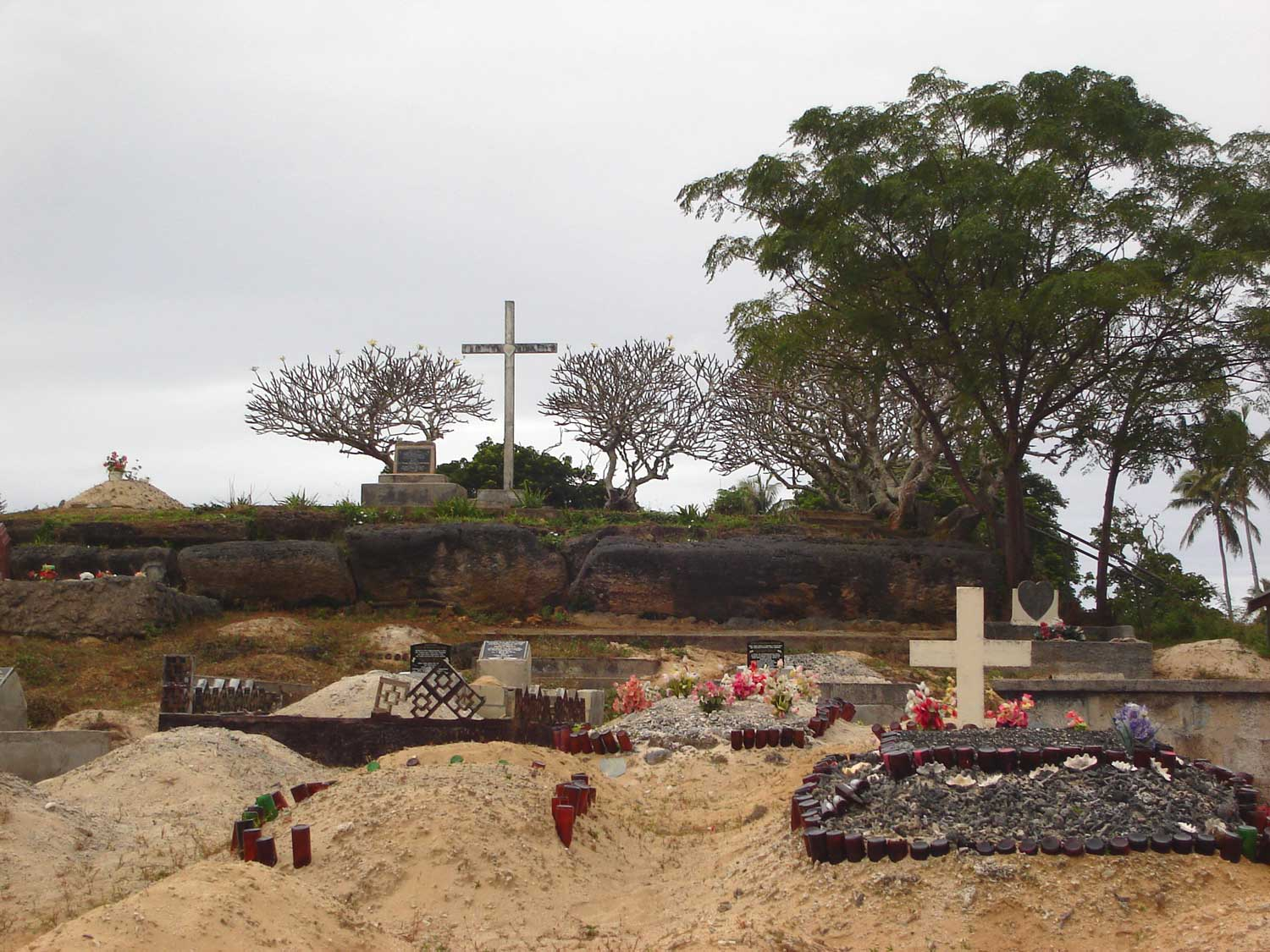 Langi Tuʻofefafa (the top cross marks the grave of Laufilitonga)